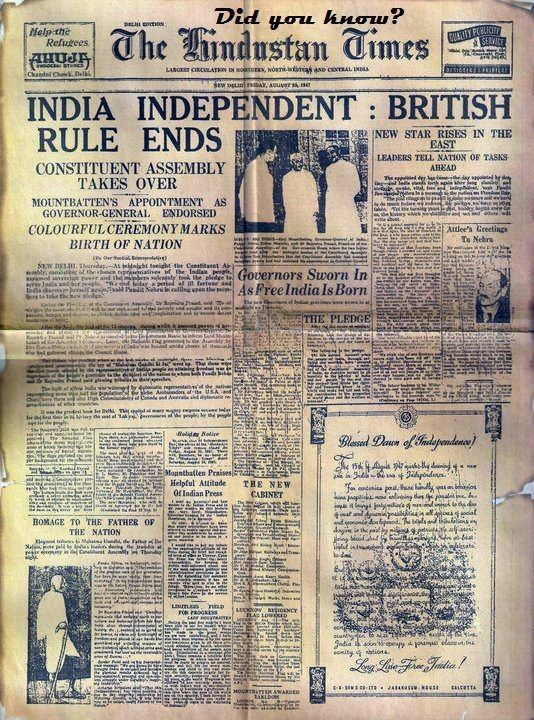 Rare photograph of Hindustan Times Newspaper when India got its Independence from Britishers..!!